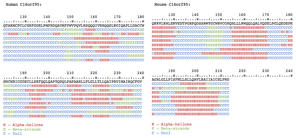 PELE compliles the secondary structure predictions from multiple programs. Alpha-helices are in red, beta-sheets in green, and coils are blue. The C-termini of the human and mouse proteins are shown.